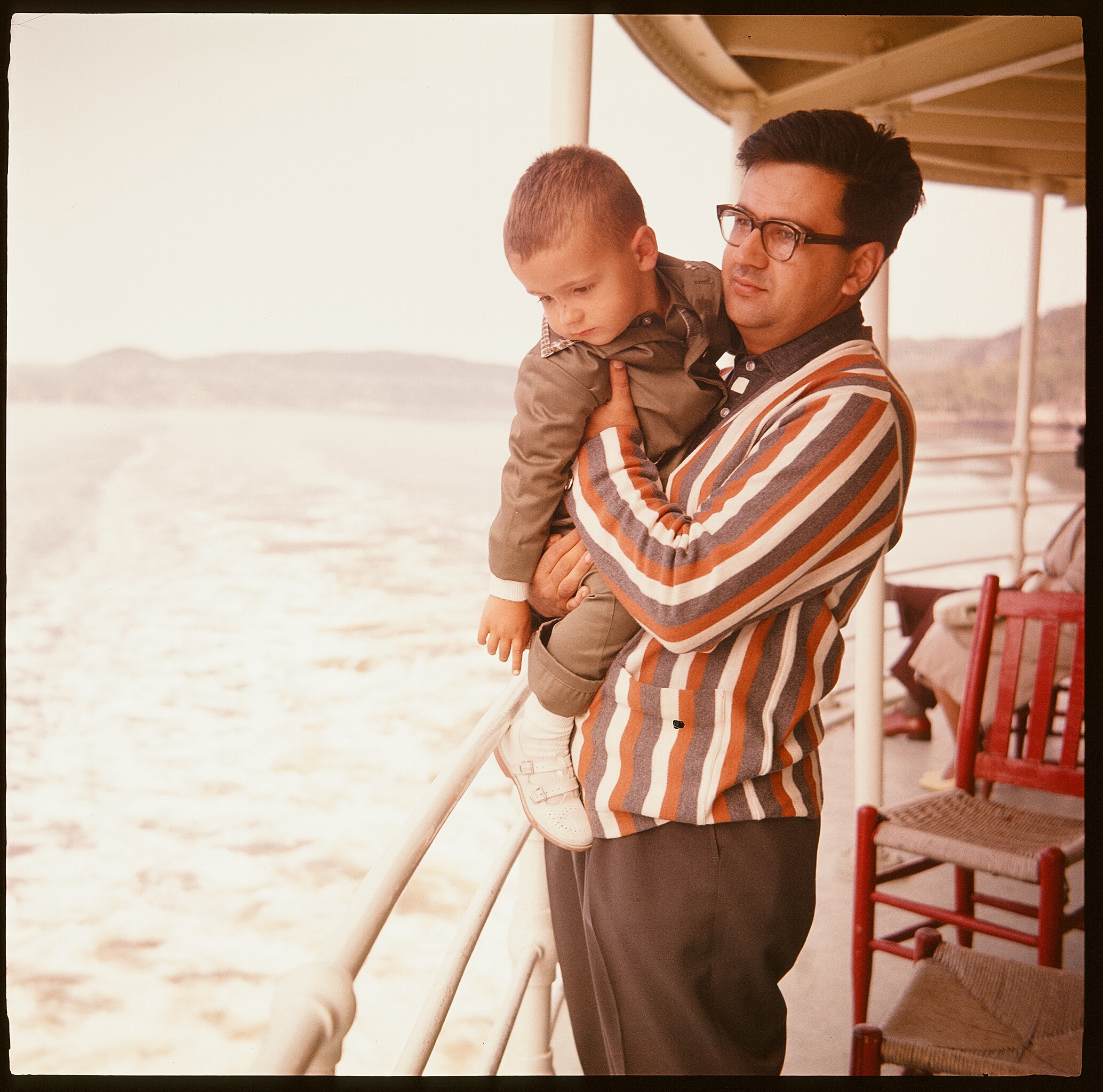 Luc Chicoine avec son fils Jean-François